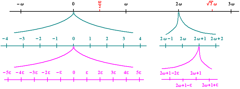 Infinitesimals (ε) and infinites (ω) on the hyperreal number line at three different scales, each enlarged by an infinite factor. 1/ε = ω/1. In the first line, finite numbers can not be distinguished because they are all stuck infinitely close to zero, in the second line infinitesimals are indistinguishable, being infinitely small (close to zero), and in the third line the infinites are indistinguishable (being close to infinity).